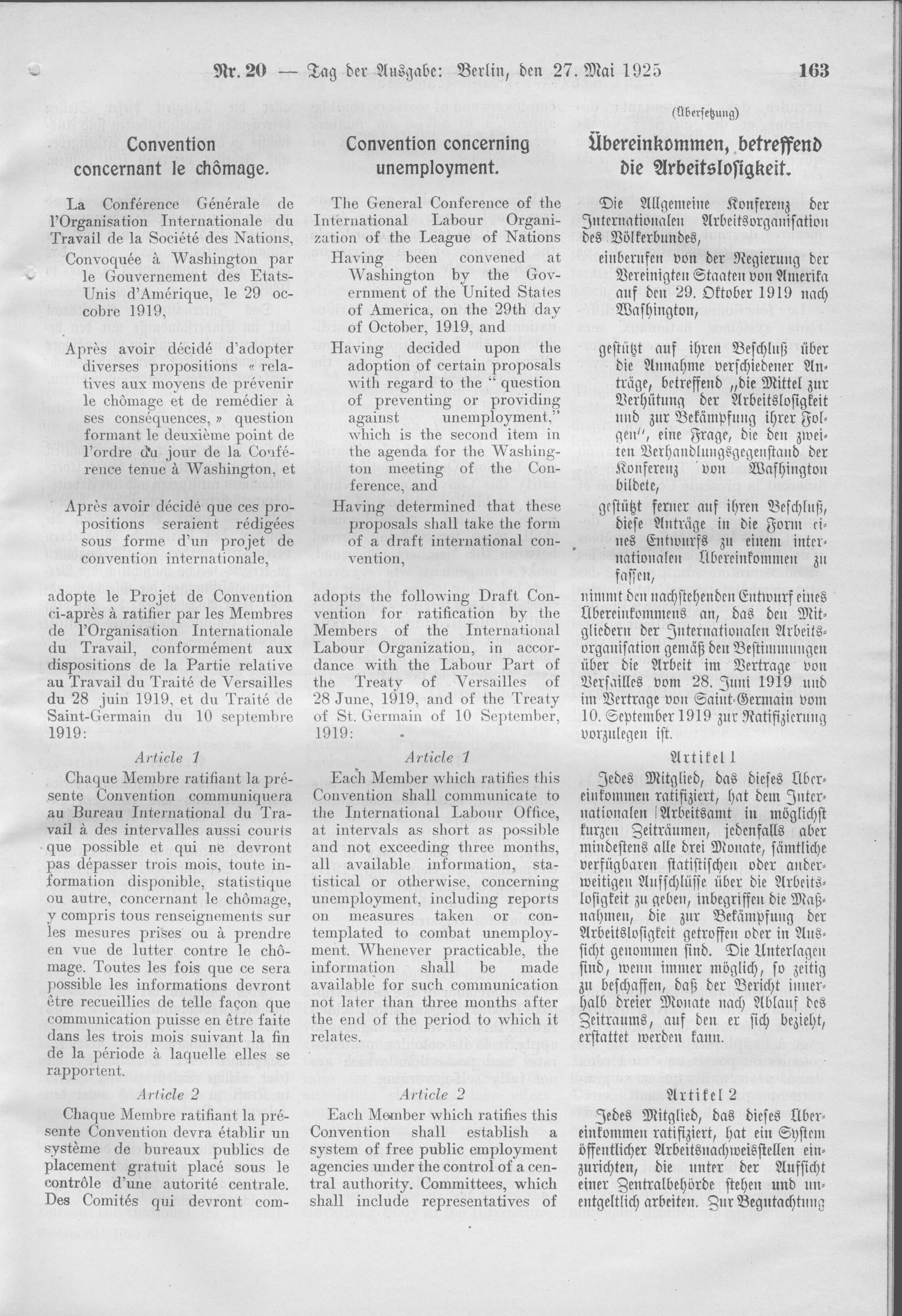 Scan from the Imperial Law Gazette of Germany, 1925, part 2